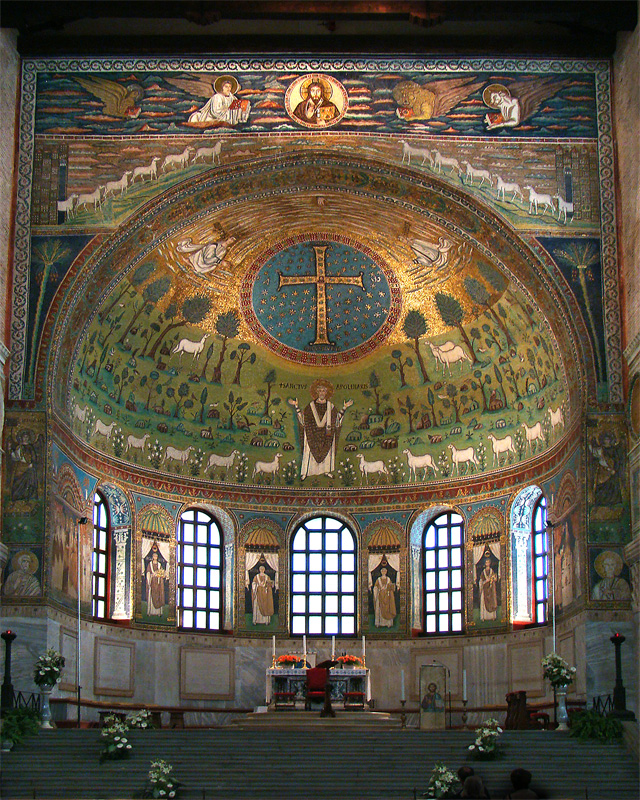 Basilica of Sant'Apollinare in Classe, Ravenna, Emilia-Romagna, Italy. The apse.